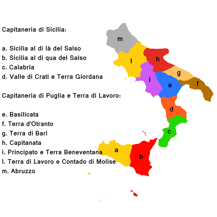 Administrative division of the Kingdom of Sicily established with the Constitution of Melfi (1231).